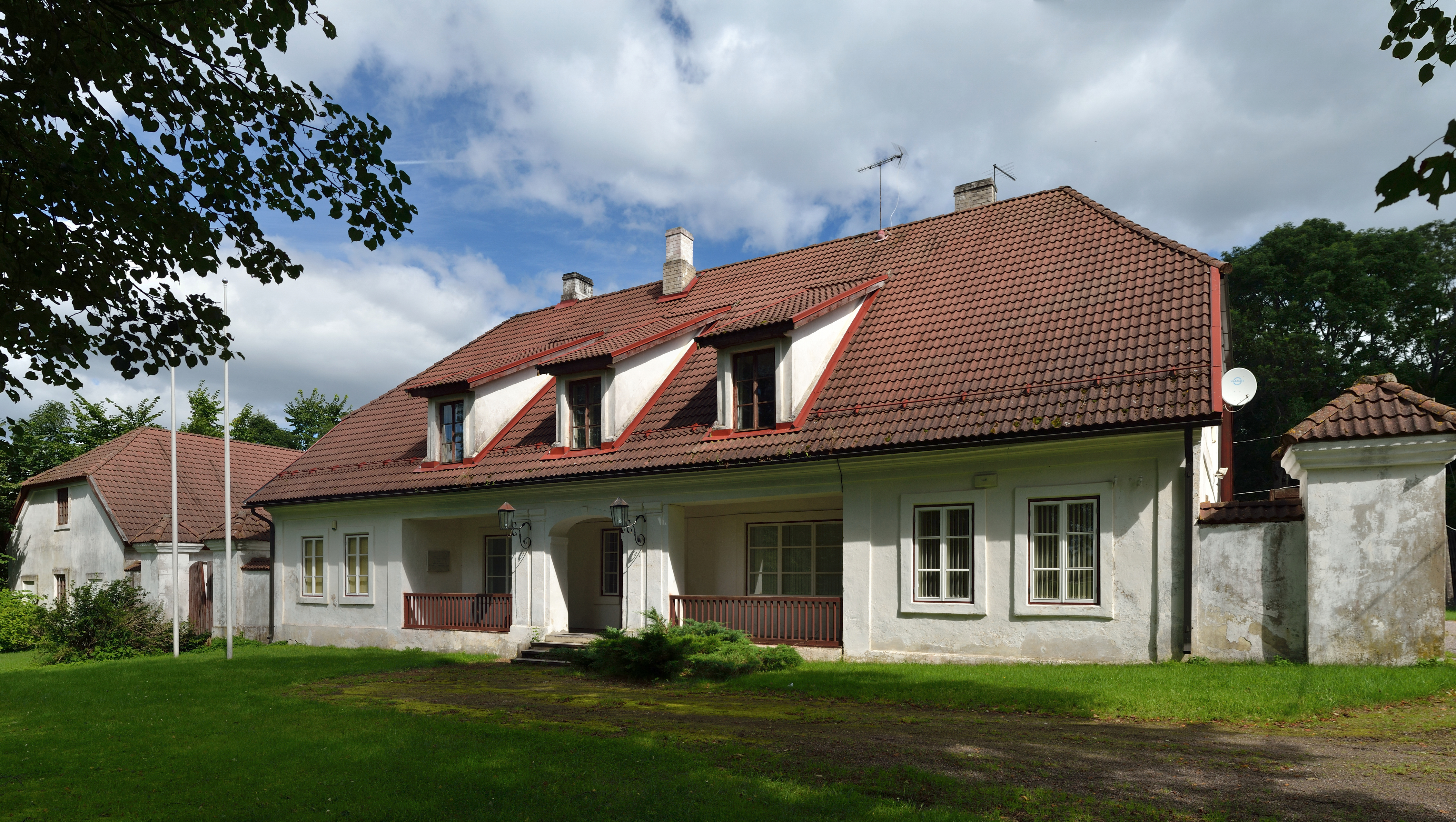 Lodja post station main building